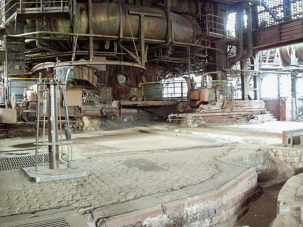 "Abstichhalle" at blast furnance no. 5, Landschaftspark Duisburg-Nord, Germany